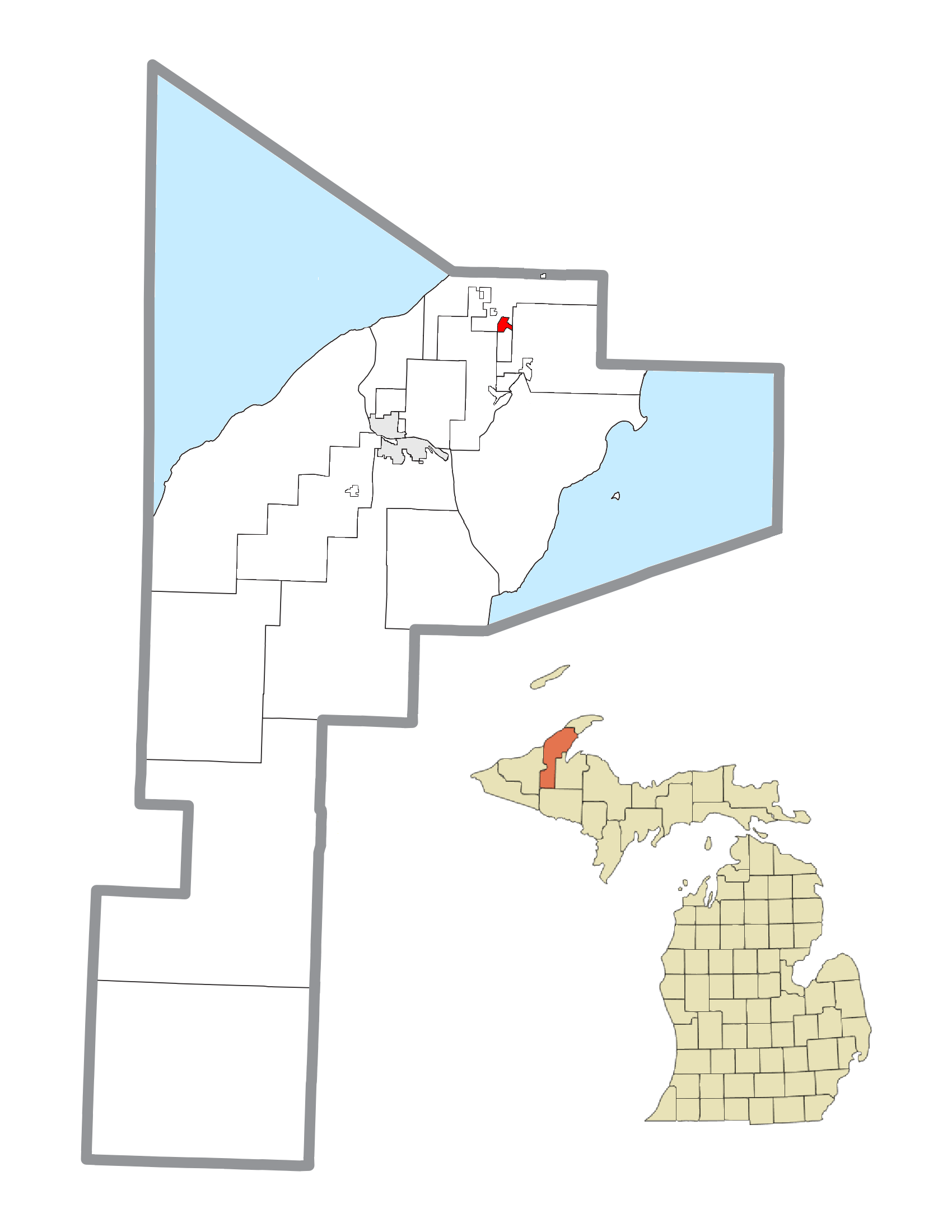 Laurium, MI